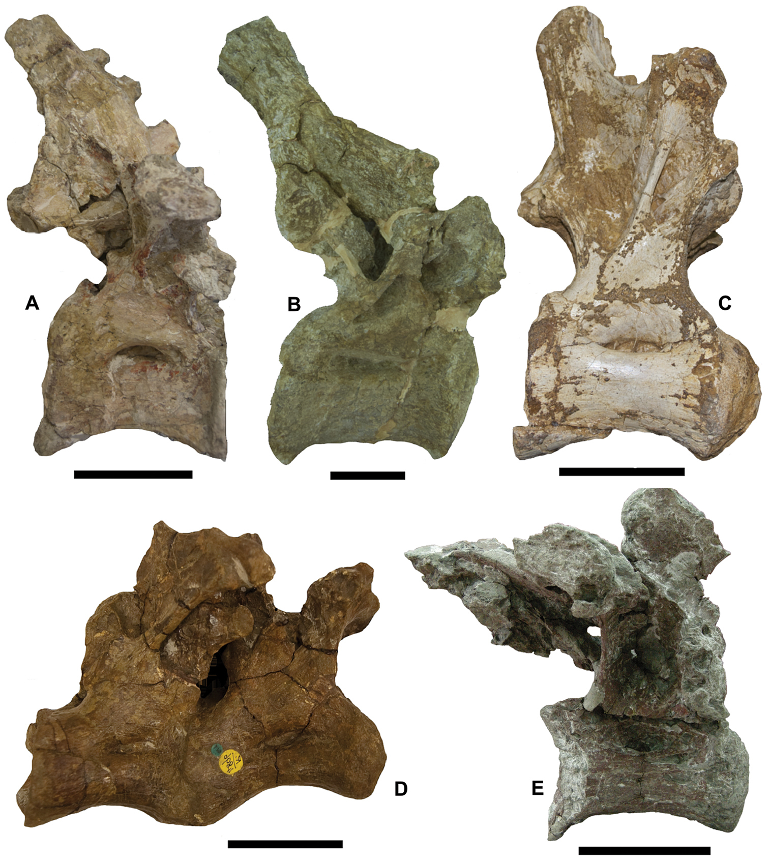 Diversity of Late Cretaceous European titanosaurs, as illustrated by posterior dorsal vertebral size and morphology (all specimens figured in right lateral view, unless specified otherwise). A Atsinganosaurus velauciensis (VBN 93.01), late Campanian, Velaux-La Bastide Neuve, Bouches-de-Rhône, southern France B Ampelosaurus atacis (MDE C3-247), late Campanian–early Maastrichtian, Bellevue, Aude, southern France C Lirainosaurus astibiae (MCNA 7443), late Campanian–early Maastrichtian, Laño, Basque Country, northern Spain D Magyarosaurus dacus (NHMUK R.4896, reversed), Maastrichtian, Sânpetru, Haţeg Basin, Romania E Paludititan nalatzensis (UBB NVM1-43), Maastrichtian, Haţeg Basin, Romania. Scale bars equal 10 cm in A–C and E and 5 cm in D. Photographs A–D courtesy by Verónica Díez Díaz.